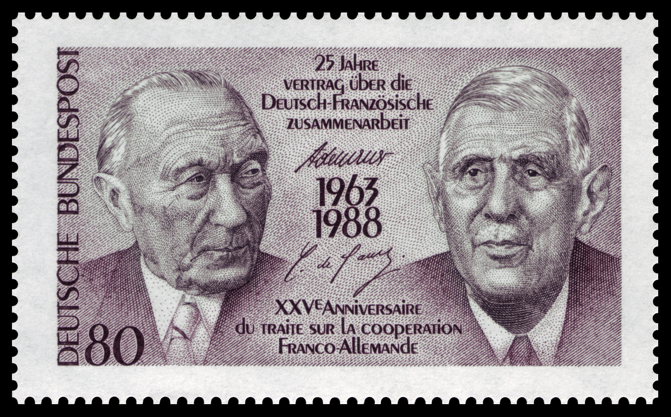 25 years of the Élysée Treaty